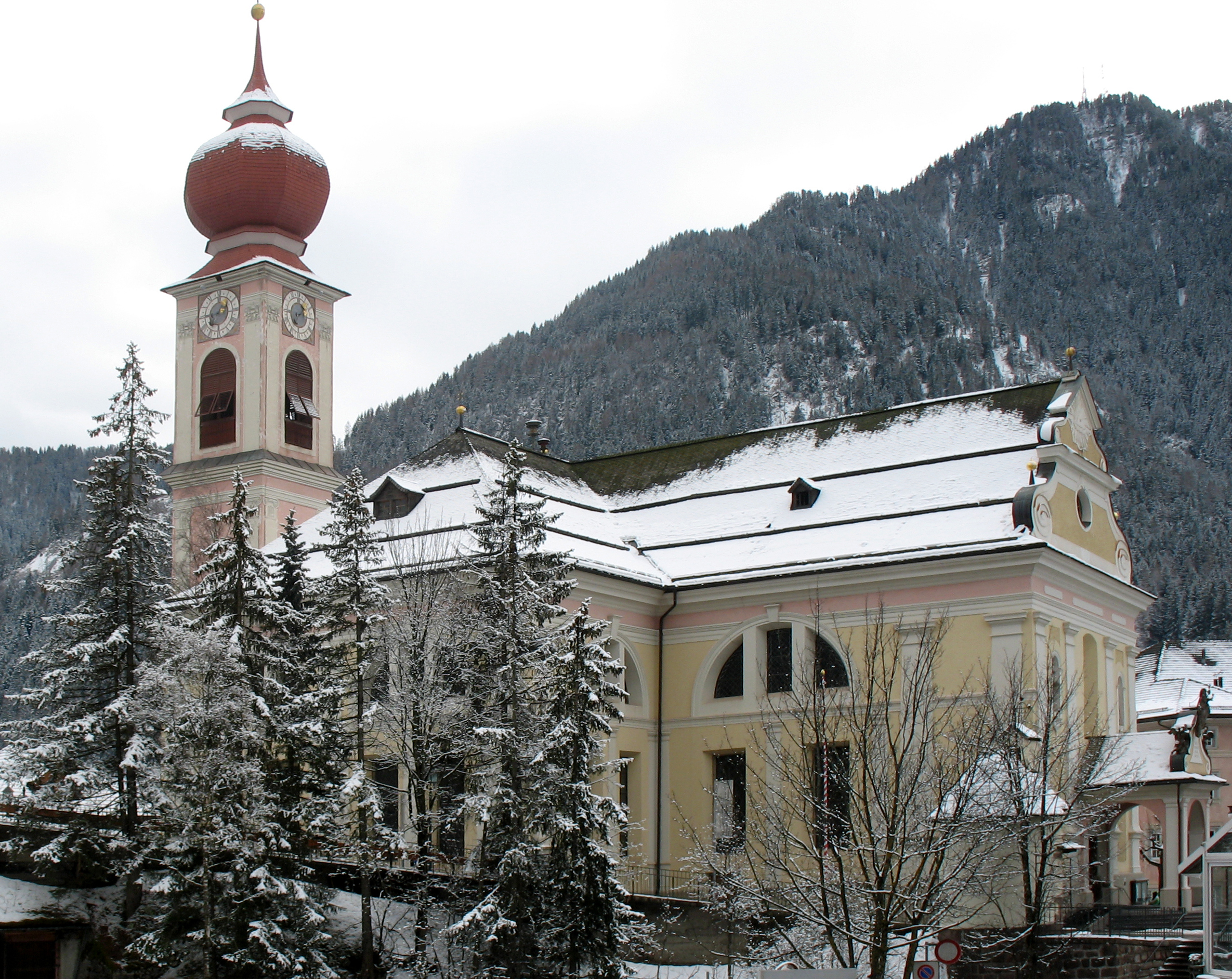 The Parish church of St. Ulrich in Gröden - (Urtijëi) built in the late 18th century.